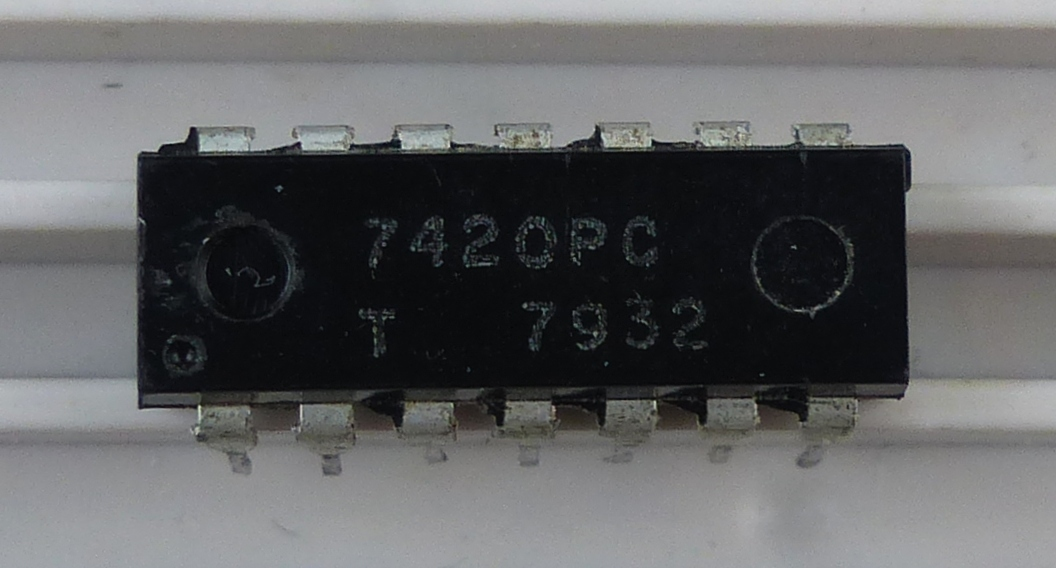 Integrated circuit 7420 - dual 4-input NAND gate - manufactured by Tungsram, Hungary